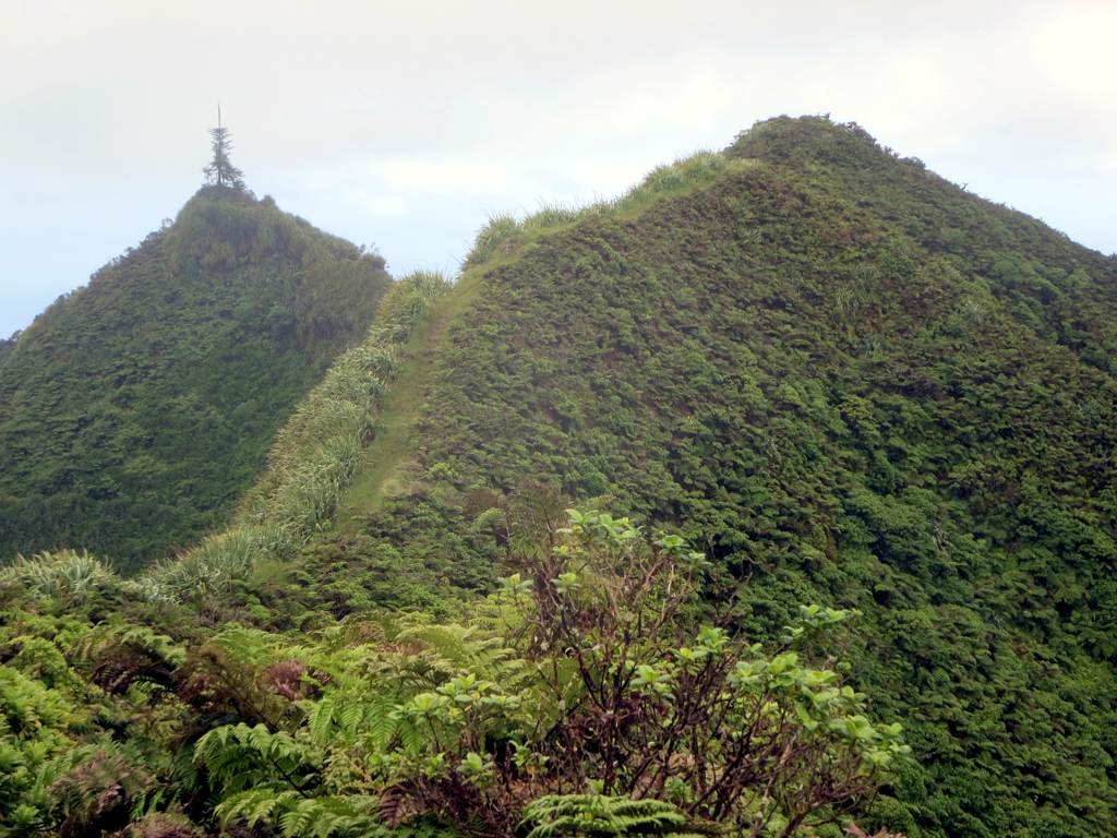 The summit on the right is Diana's Peak (823 meters), highest point on St Helena Island. To the left is Mount Actaeon crowned by a single Norfolk Island Araucaria. This ridge is now part of a national park intended to protect the island's endemic plants.